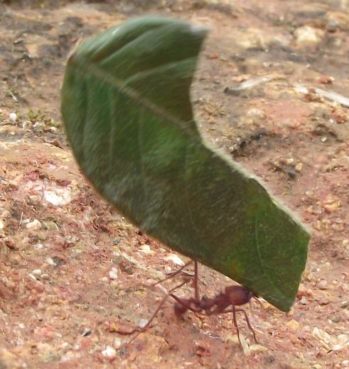 Ilhabela, SP